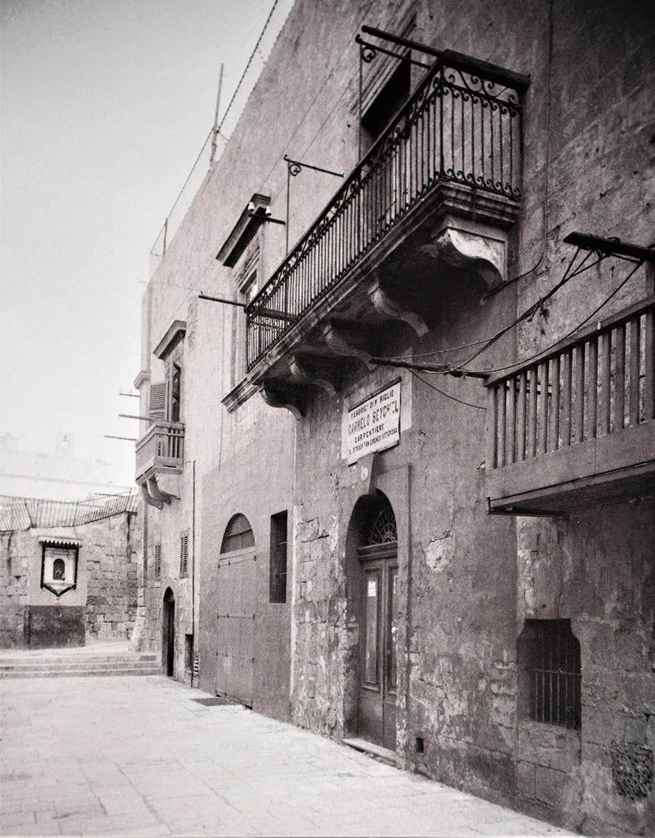 Fabbrica di Mobiglia Carmelo Seychel, 3, St Lawrence Street, Vittoriosa